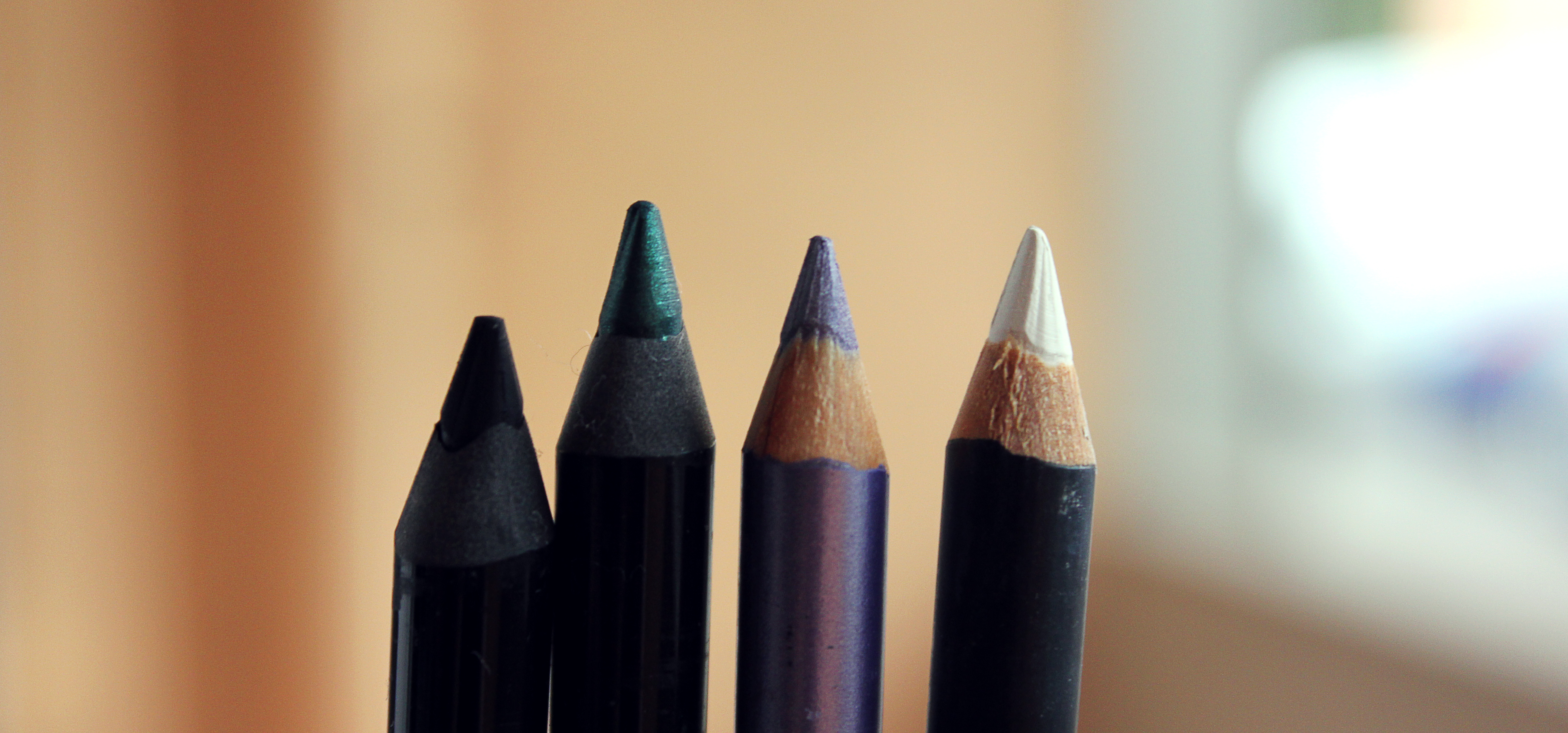 Kohl Pencils in different colours